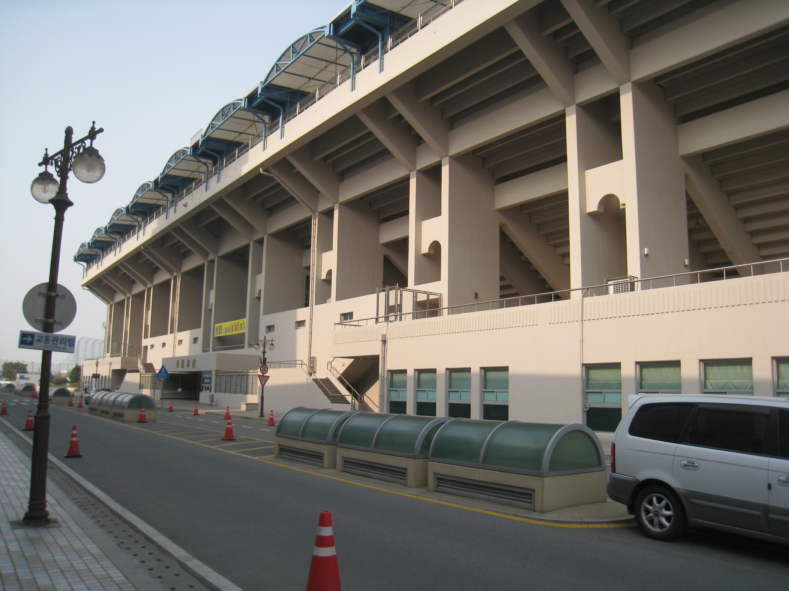 Tanchon Sports Complex. Seongnam-si,South-Korea.